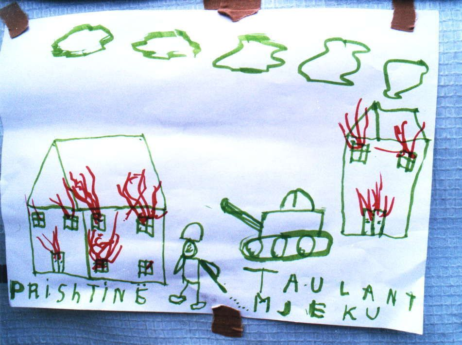 A drawing made by a refugee child, former resident in Pristina, depicts his horrific experiences in Kosovo is pinned to a wall in the Brazda refugee center in Macedonia.